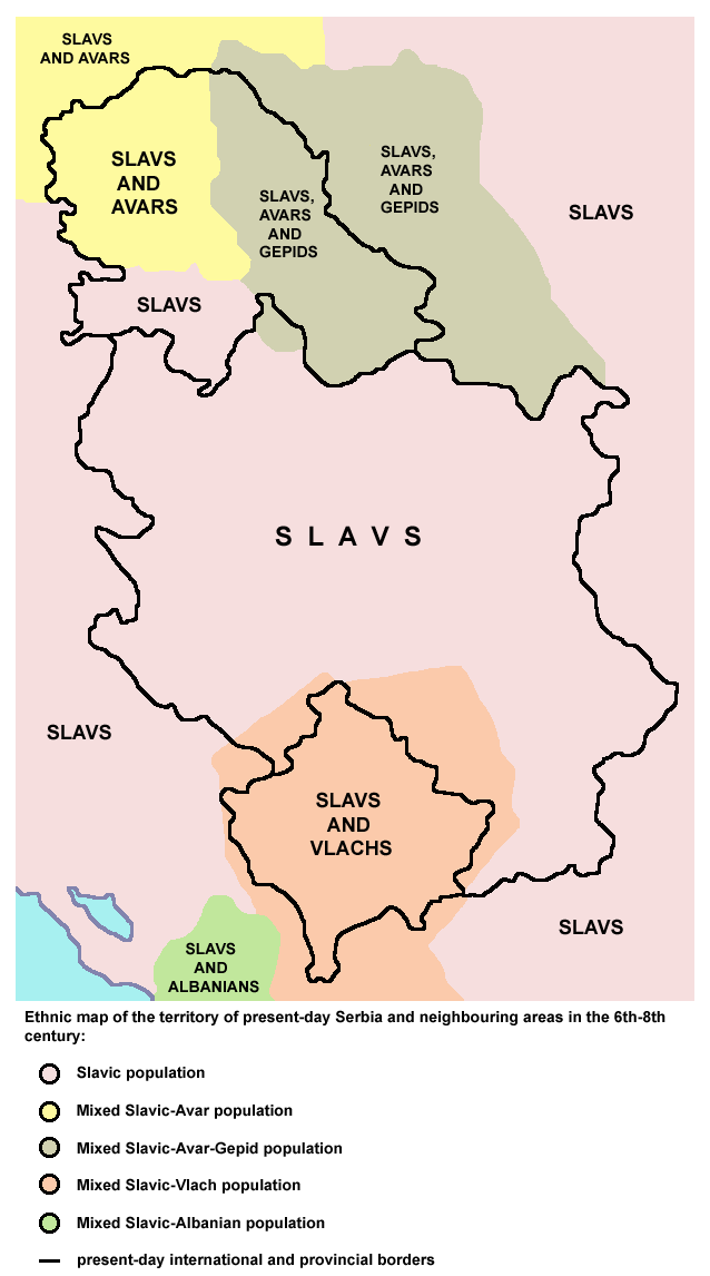 Ethnic map of the territory of present-day Serbia and neighbouring areas in the 6th-8th century (according to the historical atlas for schools, published in Belgrade in 1970, representing a view of Yugoslav historians from that time).